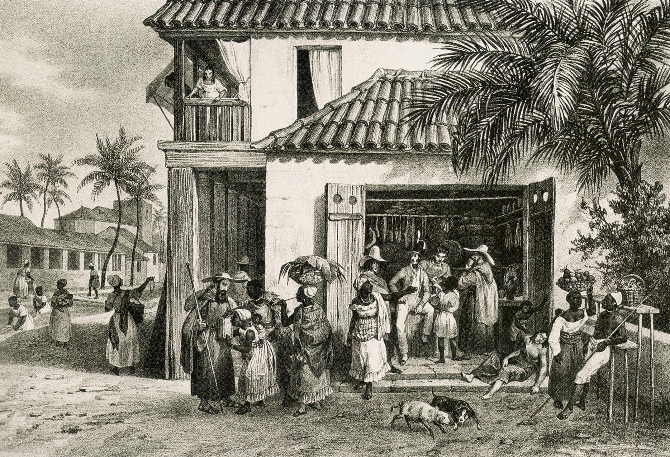 Recife, capital of Pernambuco, sometime during the 1820s.